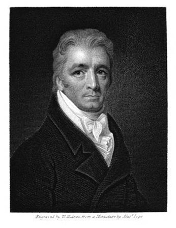 Portrait of Michael Bryan, art dealer, author of Bryan's Dictionary of Painters and Engravers (1757-1821)